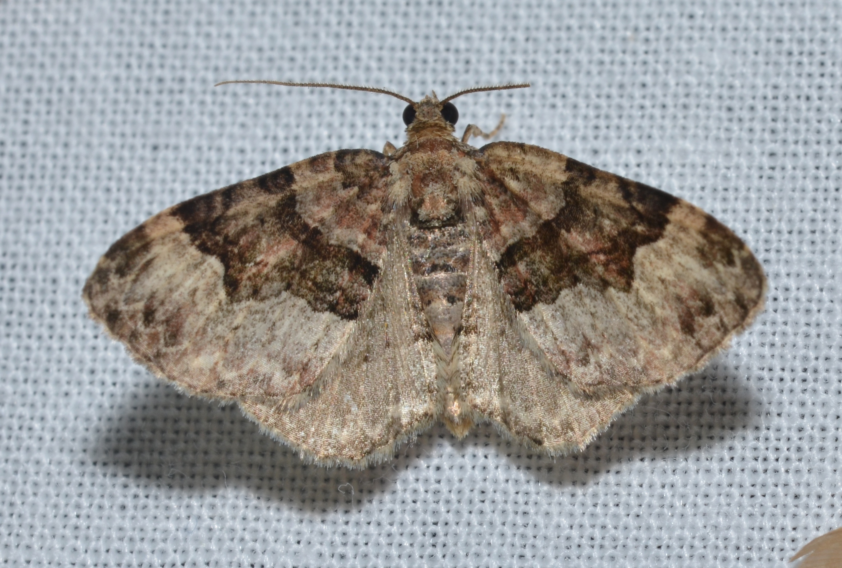 Mothing Night at Forest Park - 7/26/14